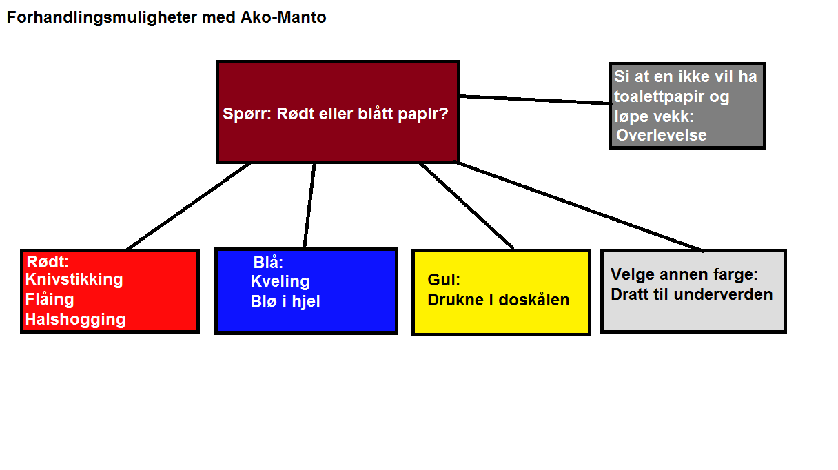 How a conversation with an ako manto looks like.